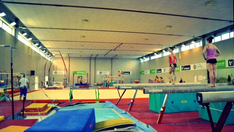 The FGI Federation Technic Center in Milan